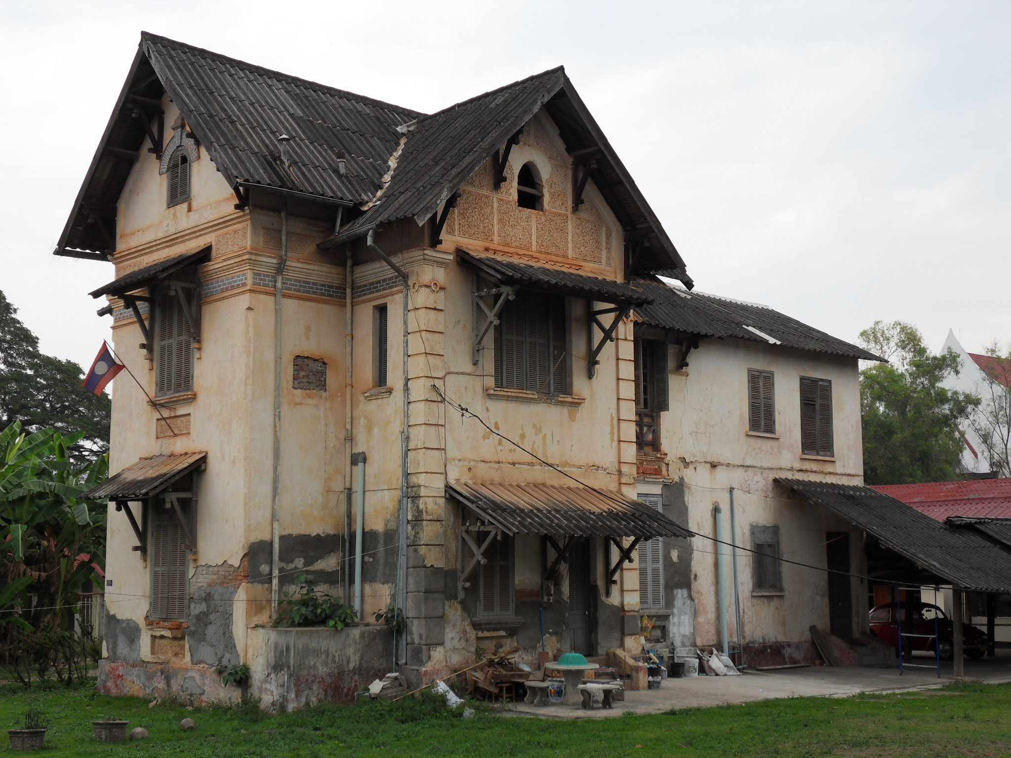 An old house in Vientiane, Laos